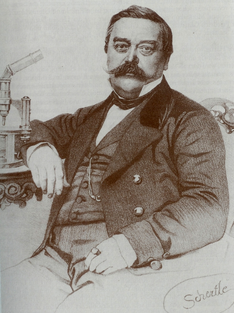 Theodor Hartig (1805-1880), German forestry scientist